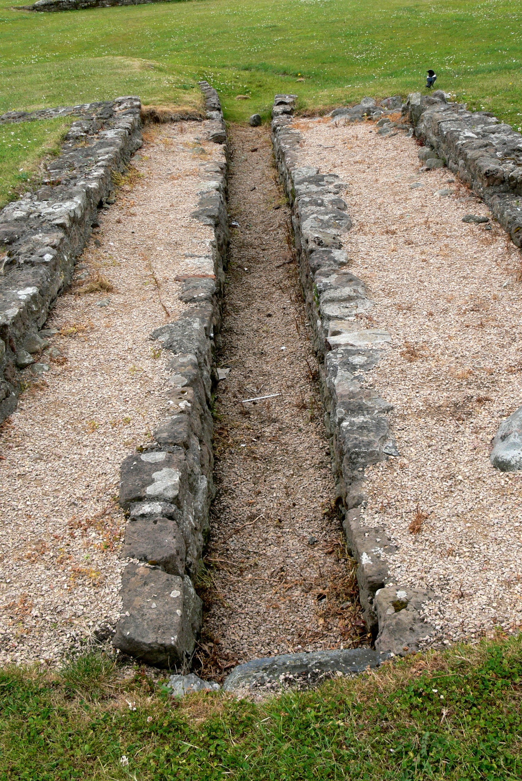 Segontium Roman fort ( Wales ). Ancient Roman sewer.